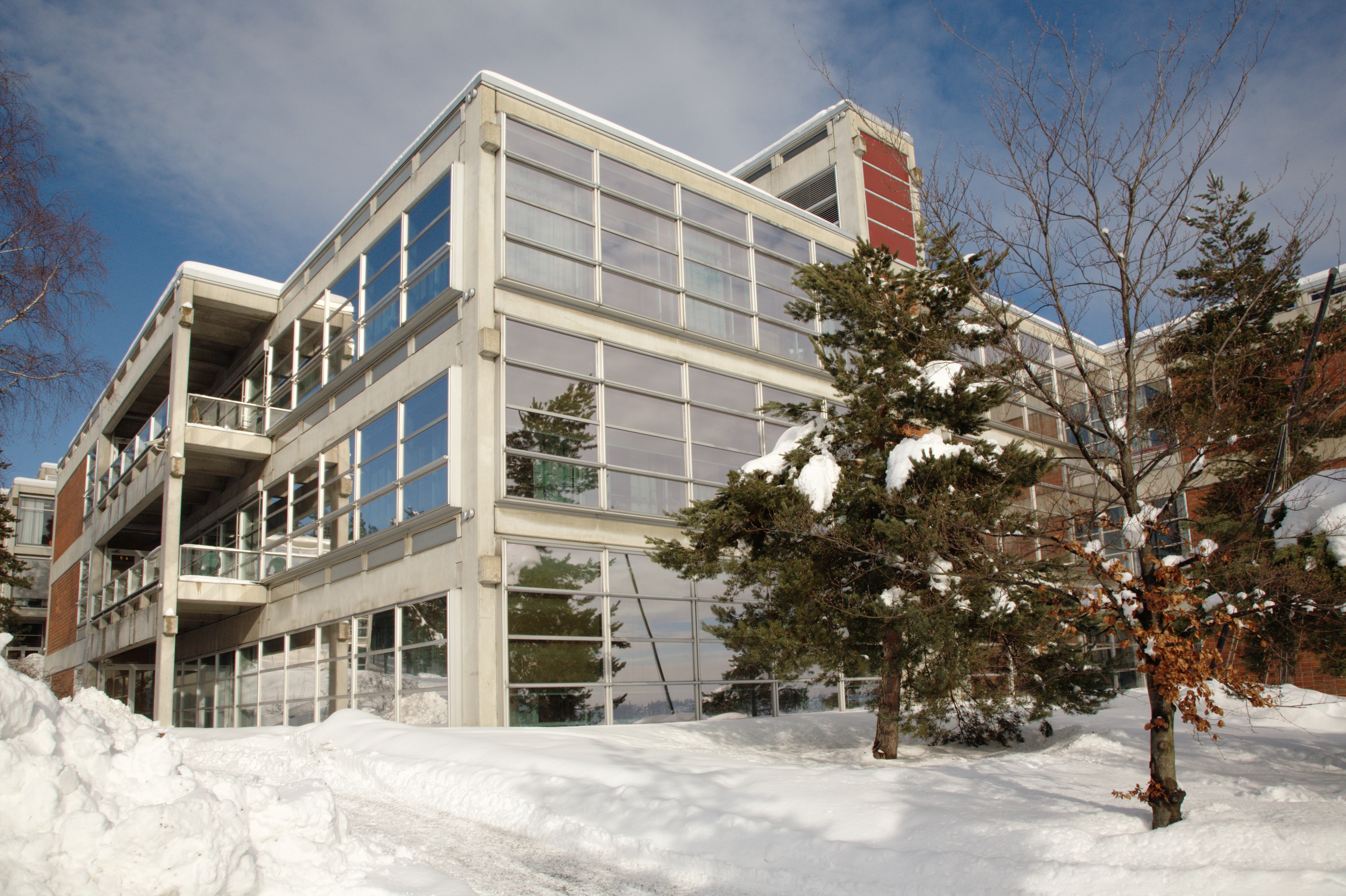 Headquarters of Det norske Veritas